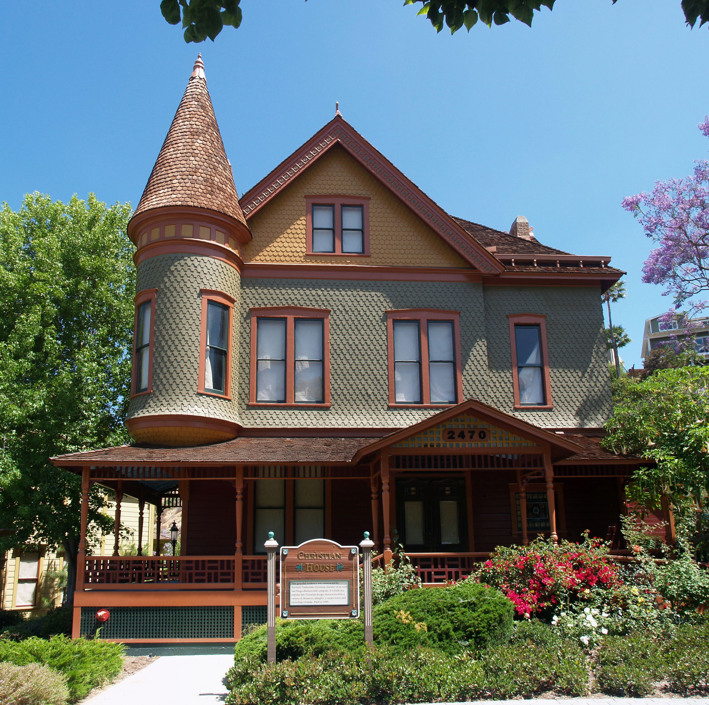 This Queen Anne–style house was built in 1889 by Harfield Christian, founder of an early San Diego abstract company. Attribution to: Phil Konstantin